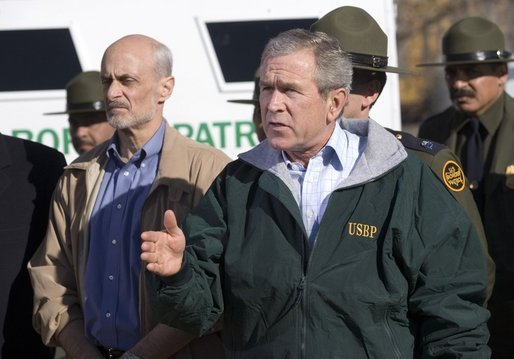 President George W. Bush delivers a statement on Border Security following a tour of the El Paso Sector of the US-Mexico border region. Also pictured at left is Homeland Security Secretary Michael Chertoff.